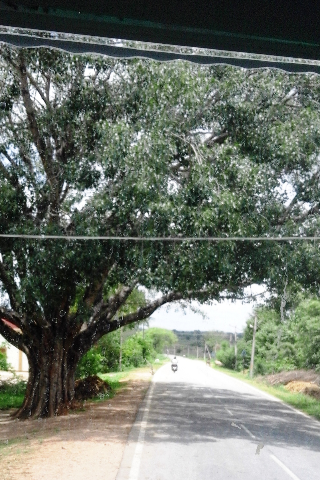 Nanjangud to T.Narasipura Road, Mysore district, Karnataka state, India.